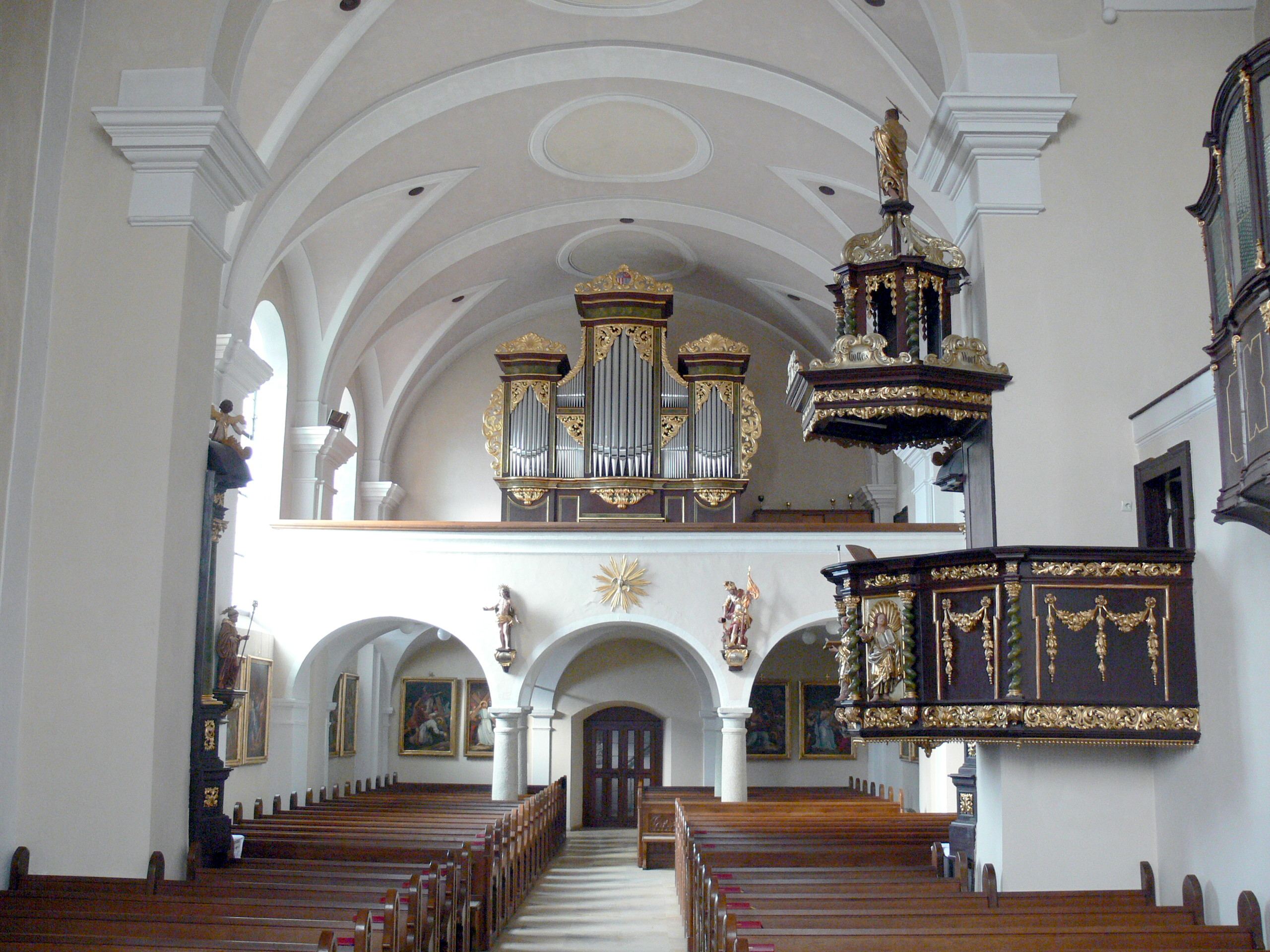 Altenfelden. Parish church: Organ and pulpit.